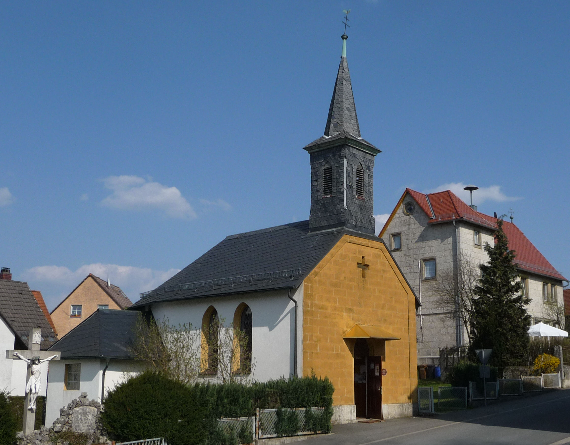 chapel in Kalteneggolsfeld, Landkreis Bamberg, Germany